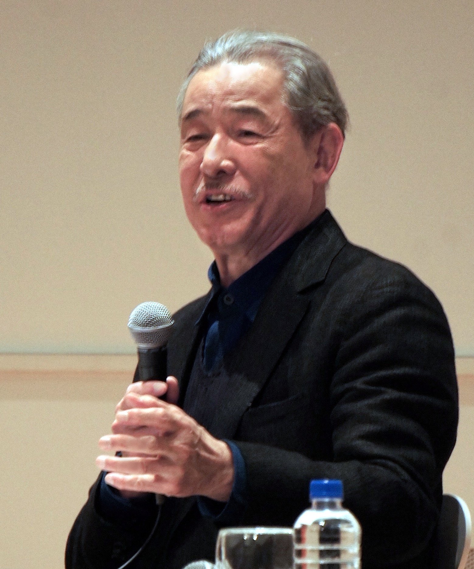 Issey Miyake at a press conference, National Art Center, Tokyo, 2016